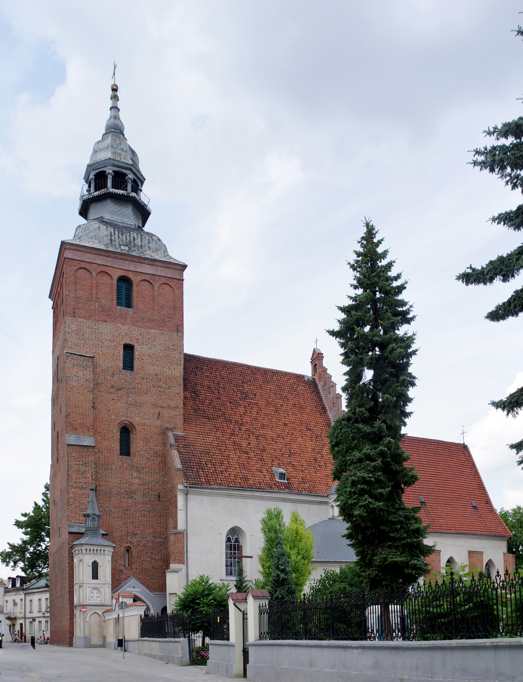 Saint James church in Piotrków Trybunalski